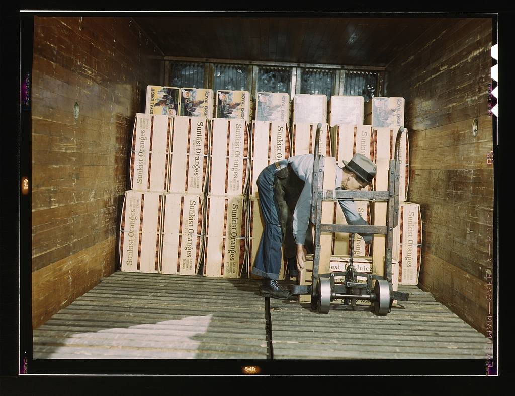 Title: Loading oranges into a refrigerator car at a co-op orange packing plant, Redlands, Calif. Santa Fe R.R. trip